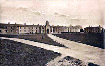 Old photo of Ballymullen Barracks